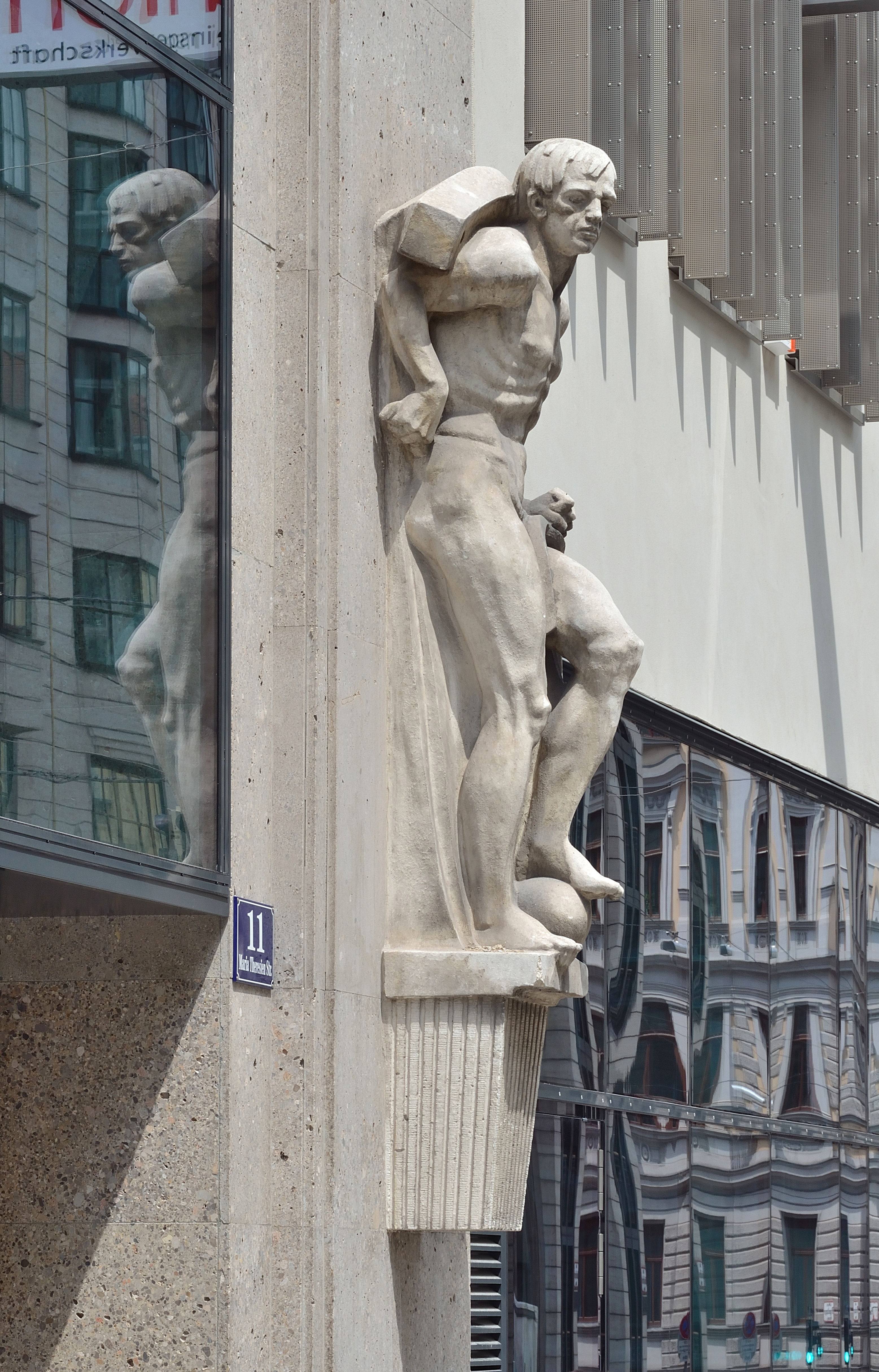 The portal of the building Maria-Theresien-Straße 11, in 2016 the seat of the union younion at Alsergrund, Vienna, is decorated with two sculptures by Franz Josef Riedl. They depict a worker and a woman with a flag.